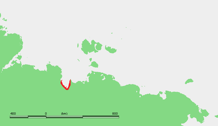 location map